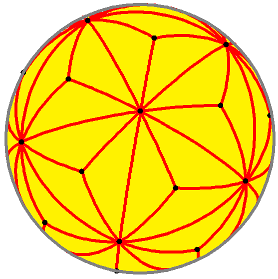 triakis icosahedron